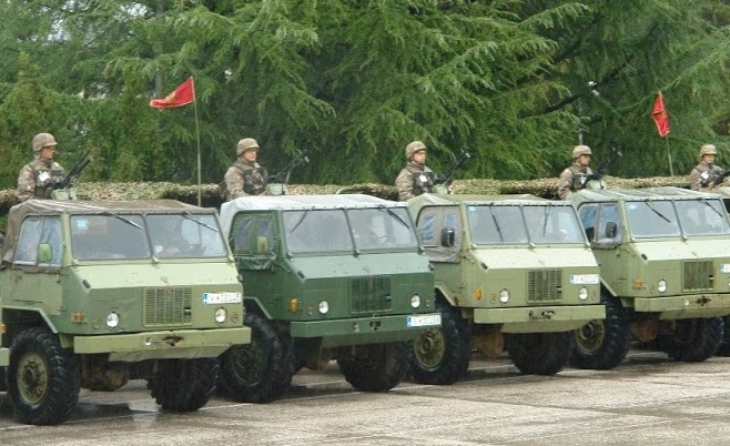 TAM 110